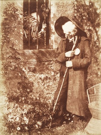 Mrs. Cleghorn and John Henning as Miss Wardour and Edie Ochiltree from Sir Walter Scott's "The Antiquary